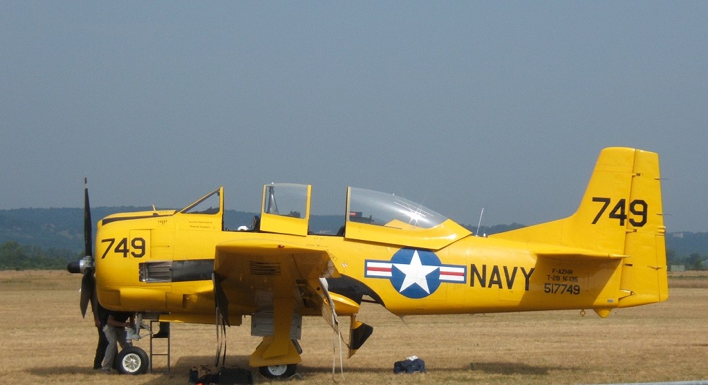 North American T-28 Trojan